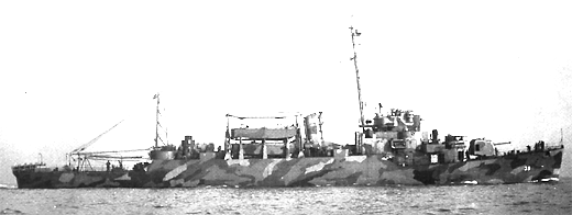 The U.S. Navy high-speed transport USS Barr (APD-39) underway on 31 October 1944.